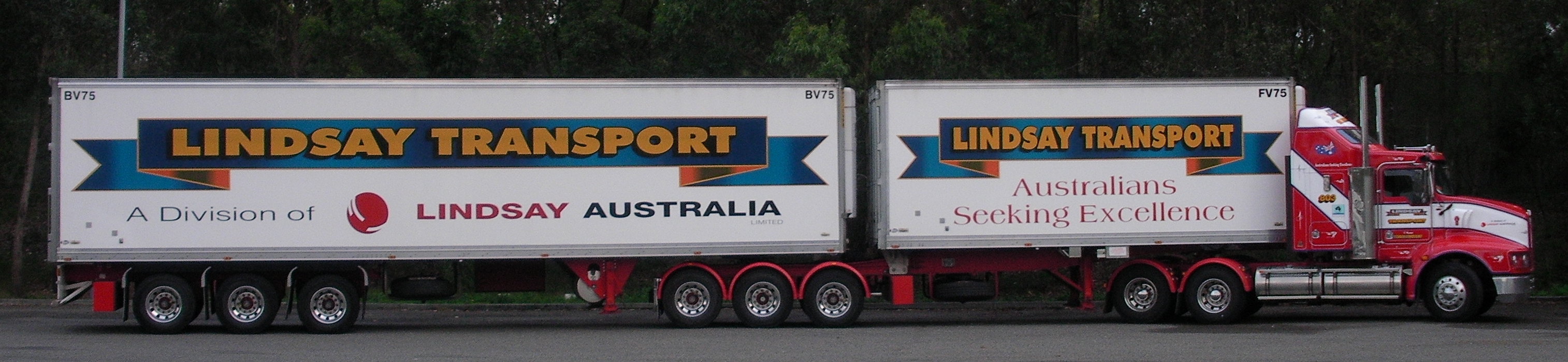 Lindsay Transport (previously Lindsay Bros) B-Double taking a break at the Northbound Caltex on the F3, between the Warnervale and Wyong exits, on the Central Coast of NSW, Australia.